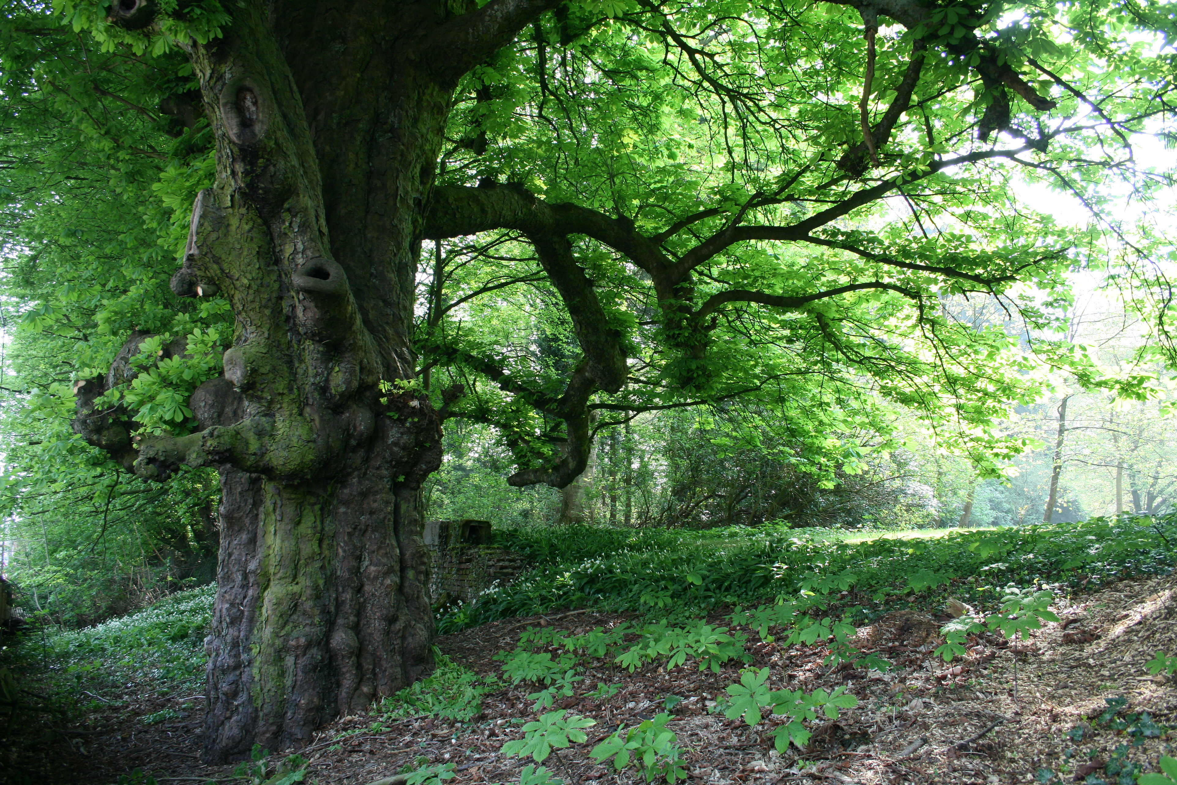 Horse-chestnut.